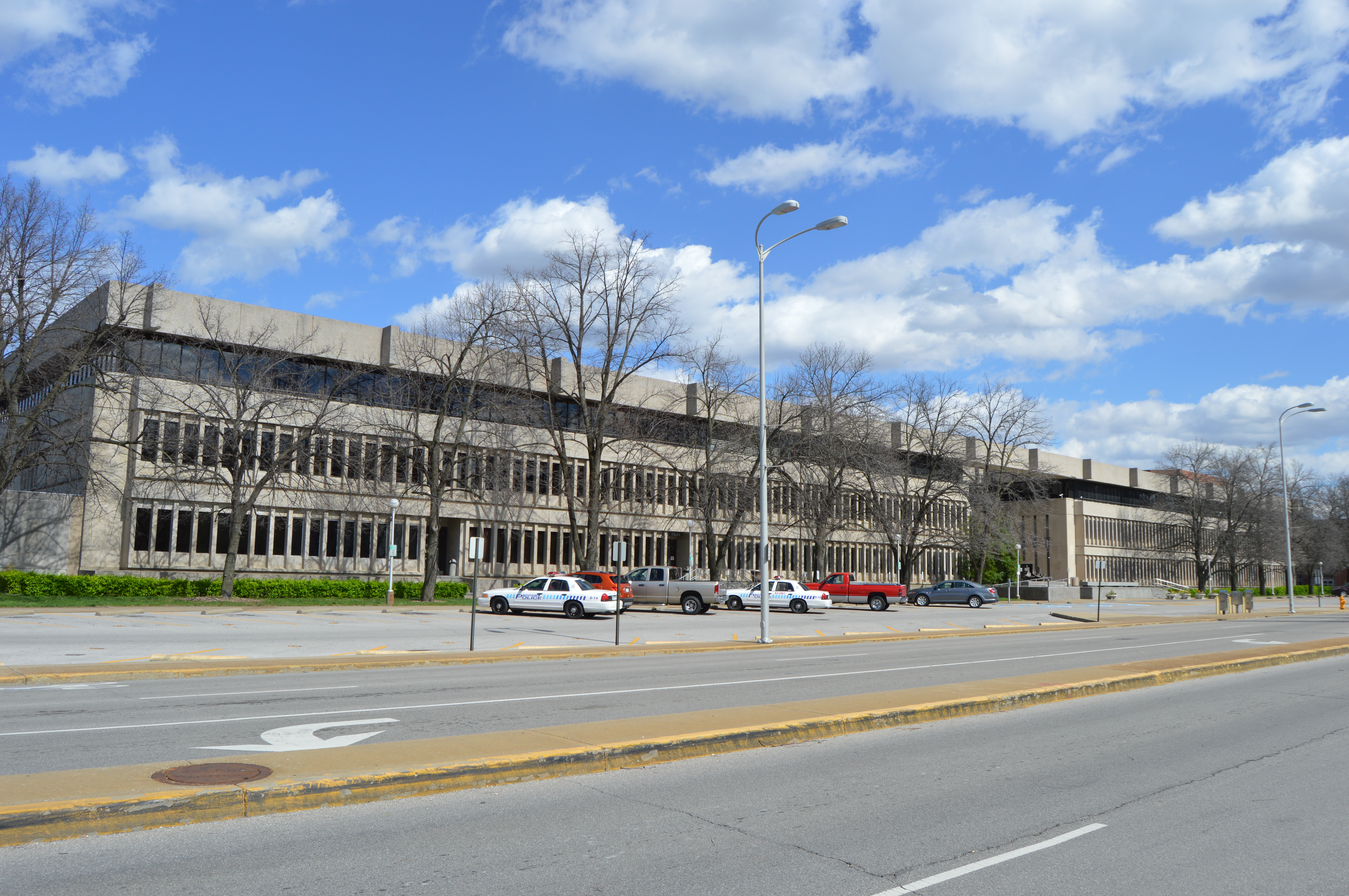 Front of the Evansville Civic Center Complex (city hall and county courthouse), located on MLK Boulevard between Sycamore and Locust streets in downtown Evansville, Indiana, United States. It was built in 1969.